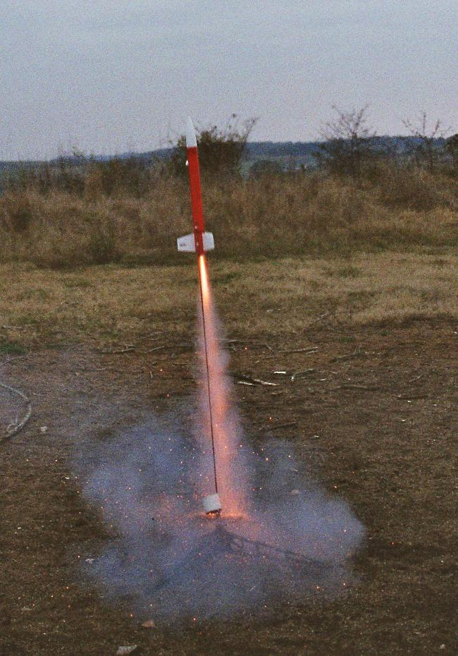 Rocket launch at Kepler Launch Site, photographed by myself on July 27th, 2006, also published on under same user name.